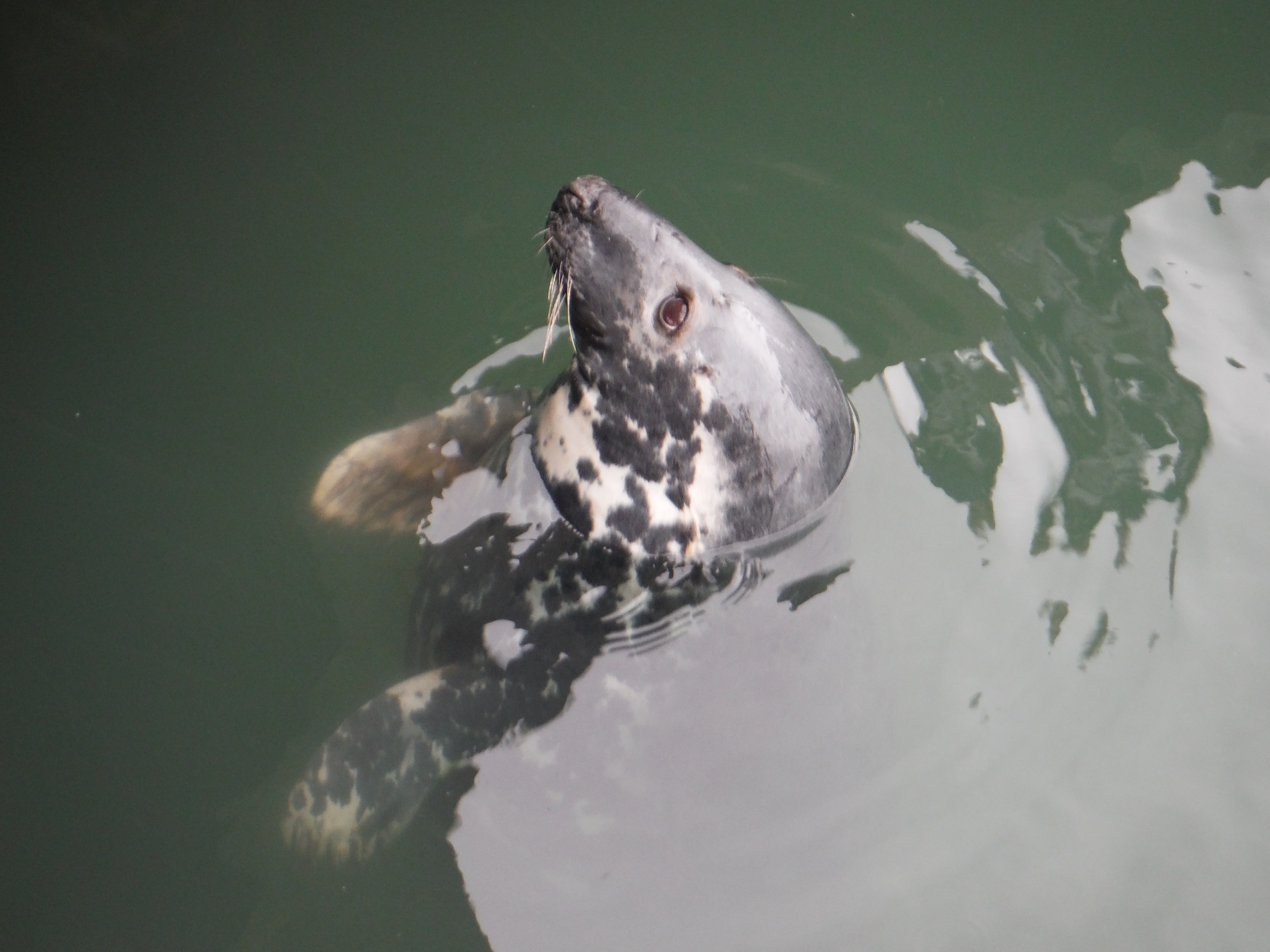 Seal Willy Hornum harbour